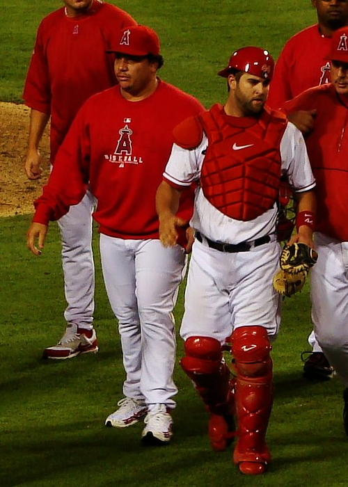 Bartolo Colón (left) and Mike Napoli